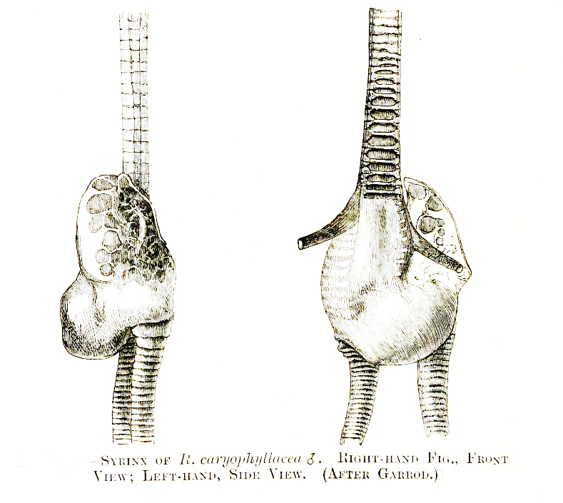 Syrinx of Rhodonessa caryophyllacea